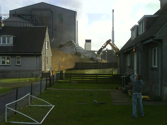 Maltings disaster! Here's a snap from Bayview on the outskirts of Port Ellen of one of the grain silos shortly after it suddenly collapsed on Saturday 15 November. It was very lucky that nobody was injured as the resulting 80 tonne landslide of barley destroyed a garden fence and caused quite a bit of damage to parts of the maltings.